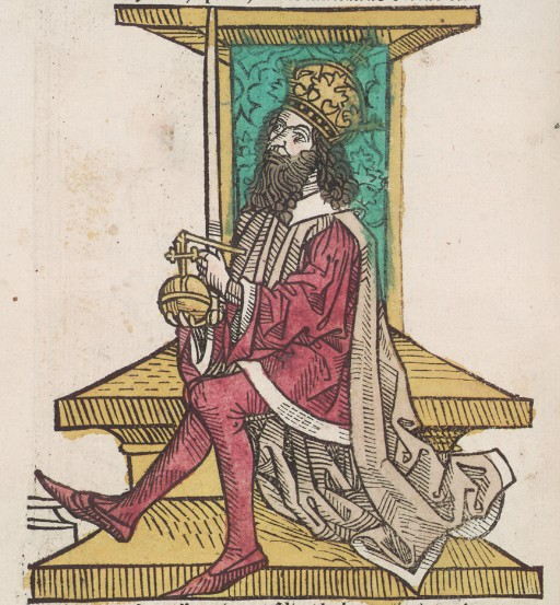 Andrew II of Hungary